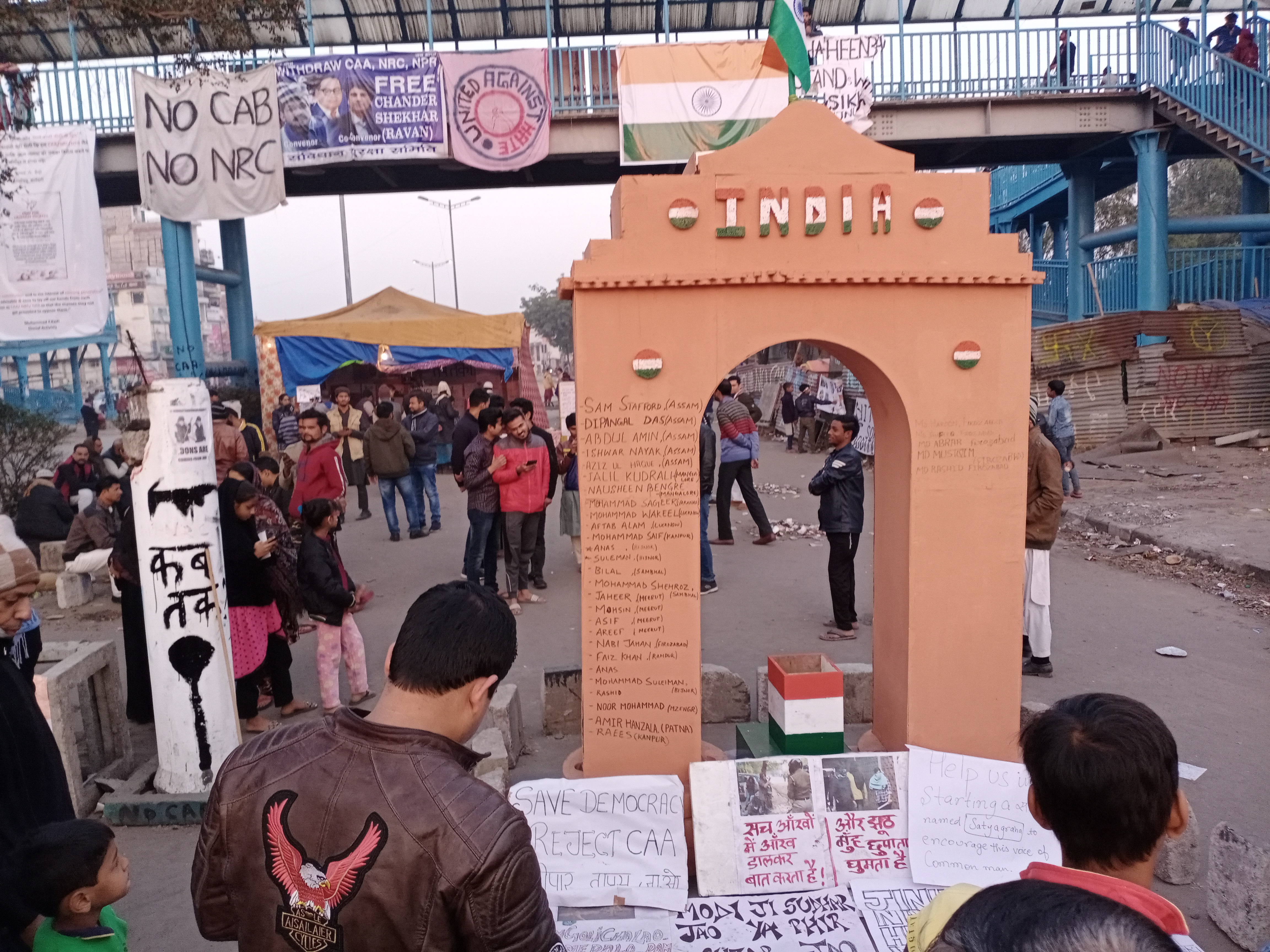 Name of those killed in anti-caa protests on an India Gate artwork at Shaheen Bagh 11 Jan 2020